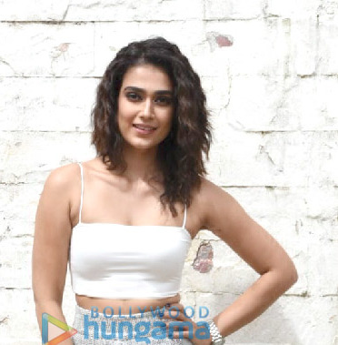 Aakanksha Singh spotted outside the set of The Kapil Sharma Show at Film City